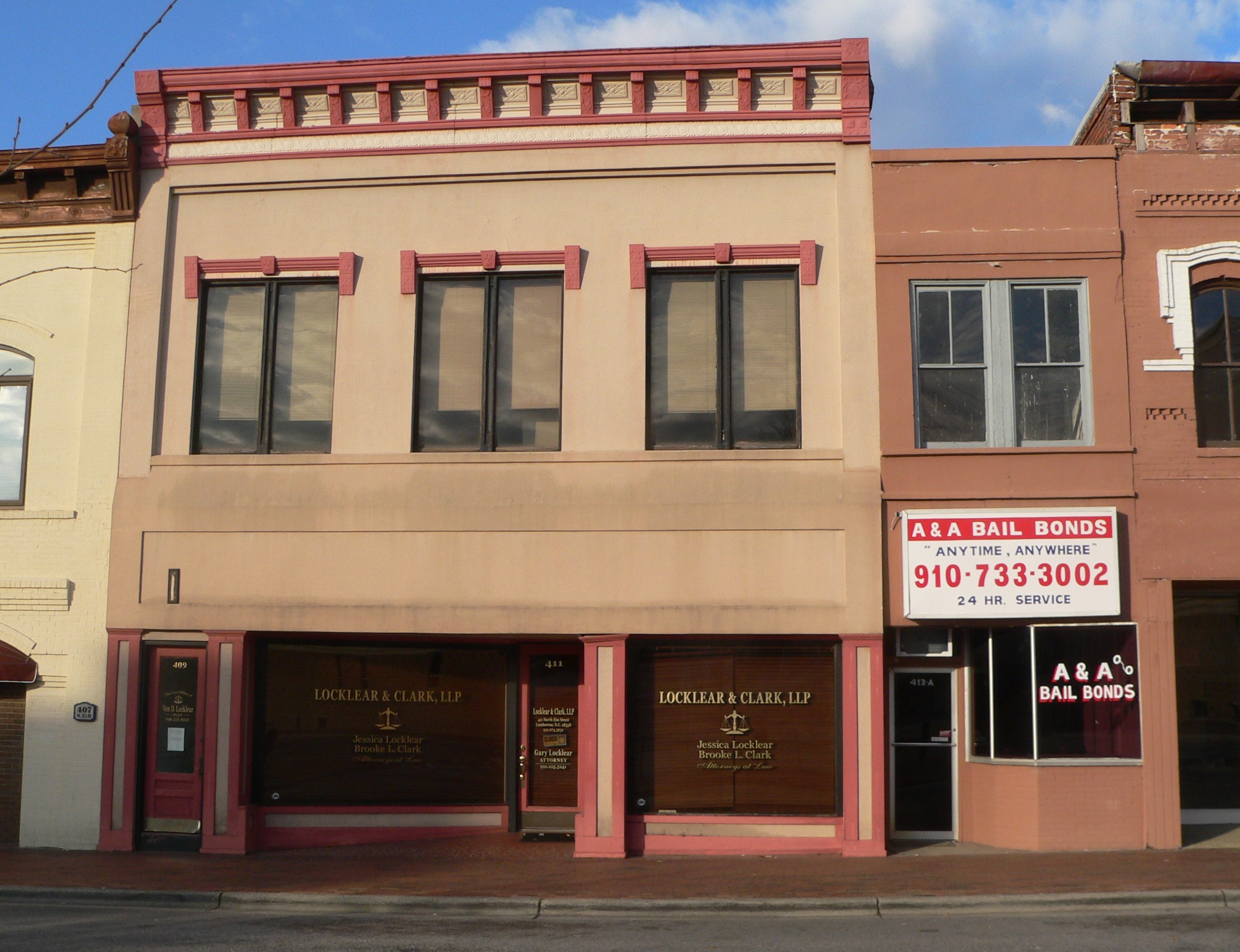 Downtown Lumberton, North Carolina: buildings at 409-411 (left) and 413A (right; narrow building, "A&A Bail Bonds") N. Elm Street. The buildings are contributing properties in the Lumberton Commercial Historic District, listed in the National Register of Historic Places.